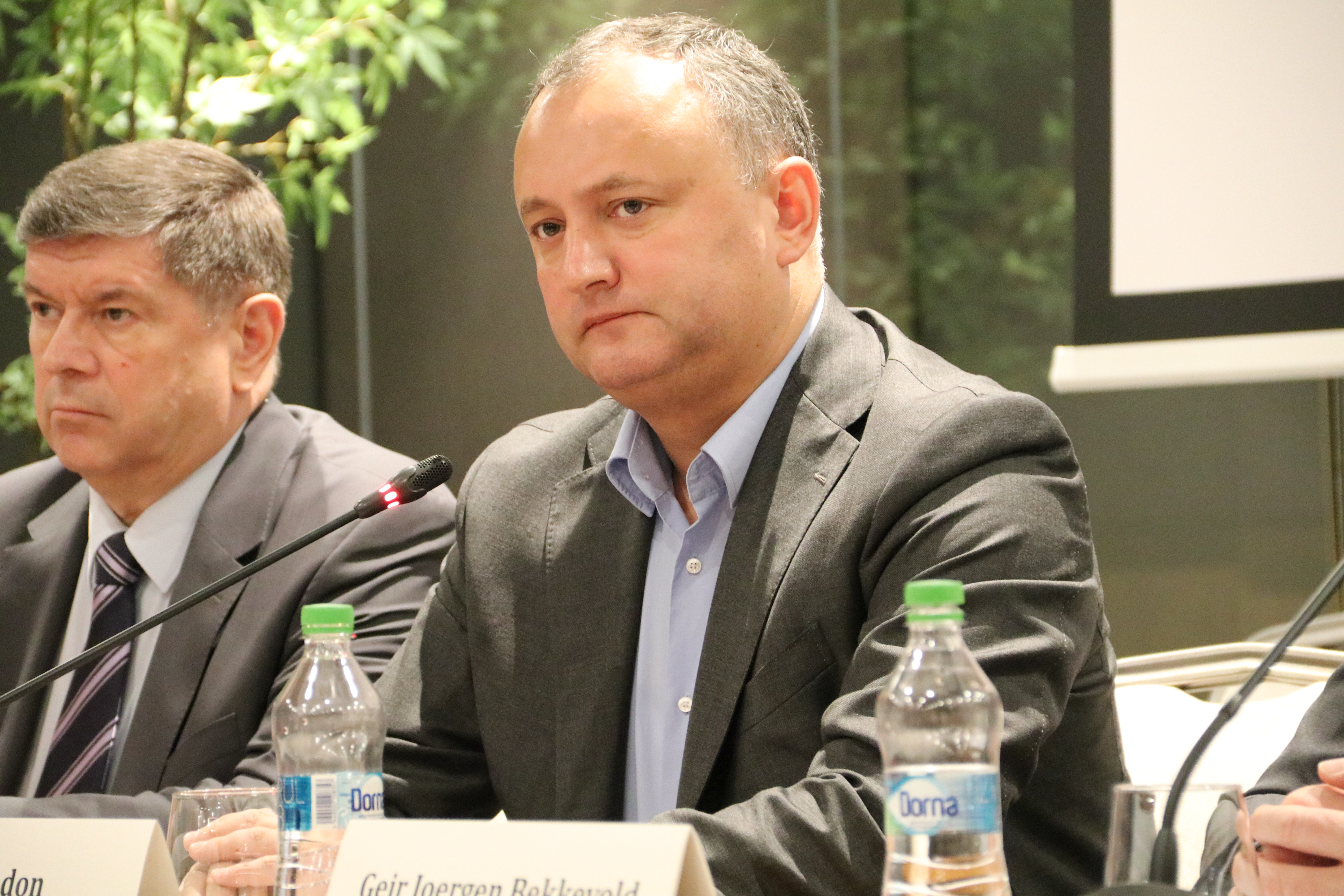 Presidential candidate Igor Dodon, Chisinau, 12 November 2016